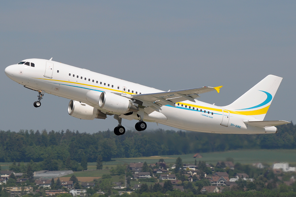 A Comlux A320CJ taking off from Zurich-Kloten Airport